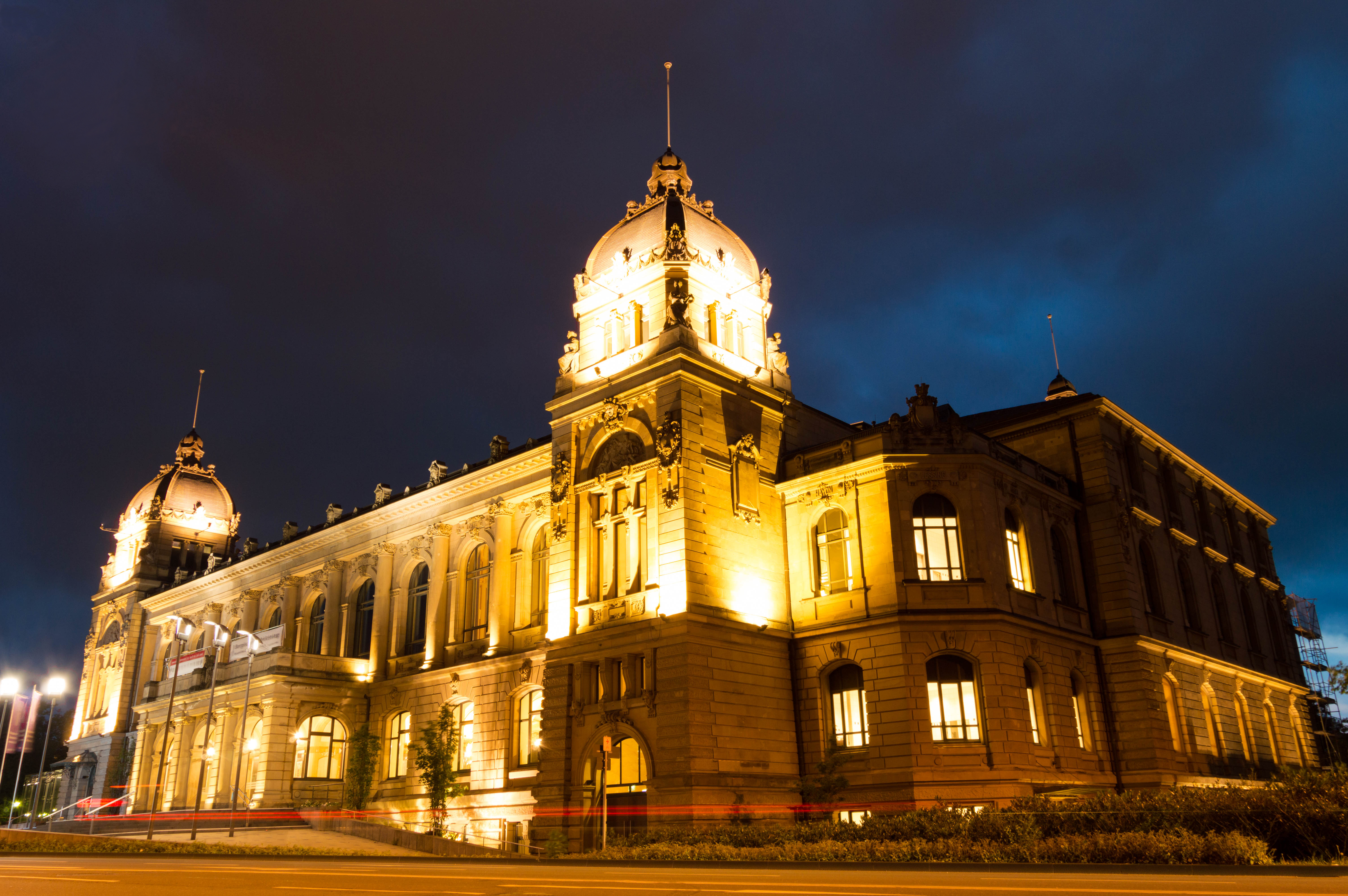 This is a photograph of an architectural monument.